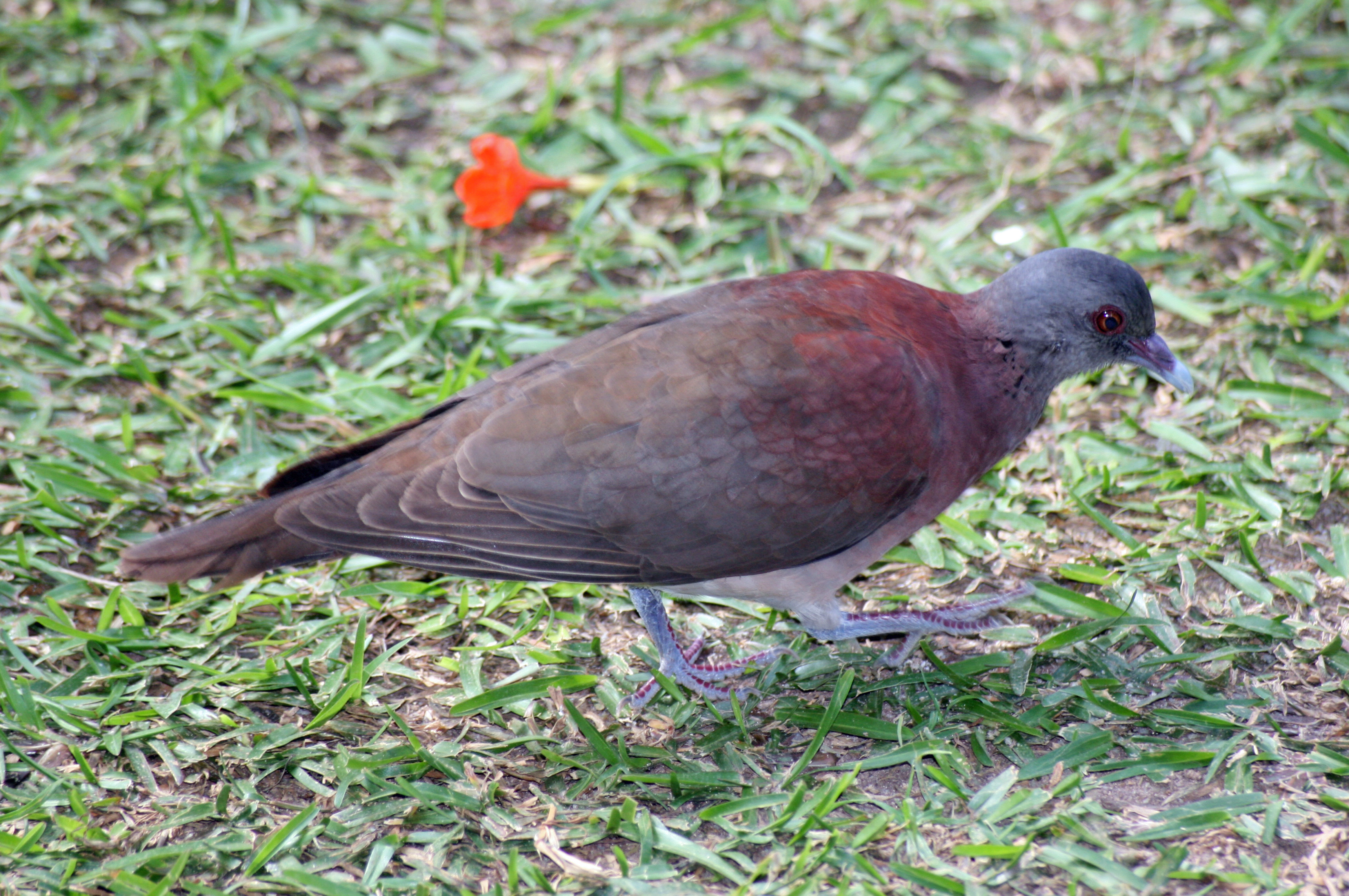 Streptopelia picturata ("Malagasy Turtle Dove") on Praslin island on the Seychelles